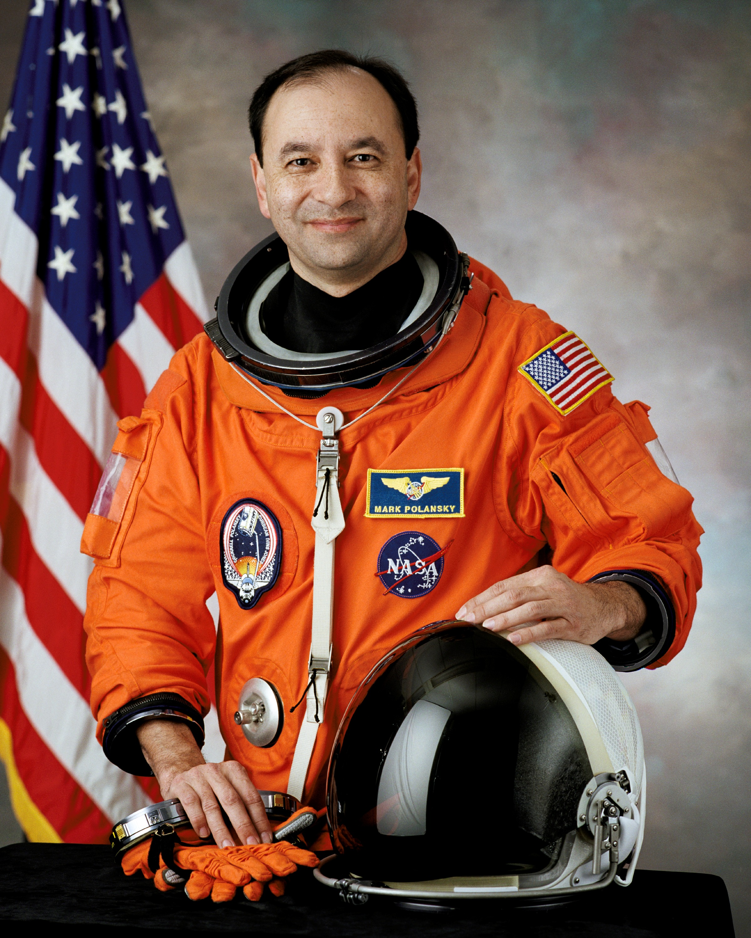 Portrait astronaut Mark L. Polansky